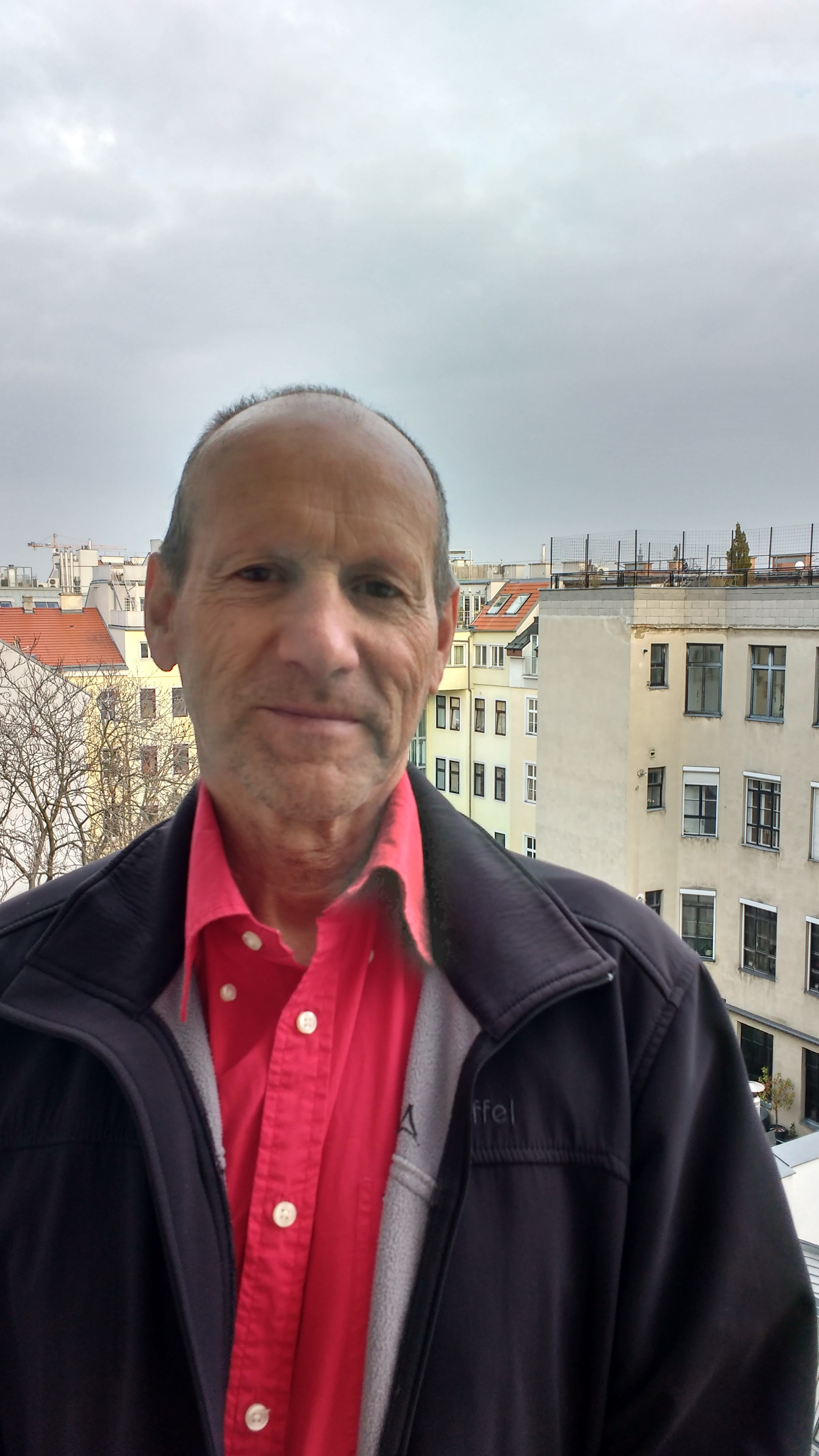 Konrad Hofer is a sociologist from Vienna / Austria.